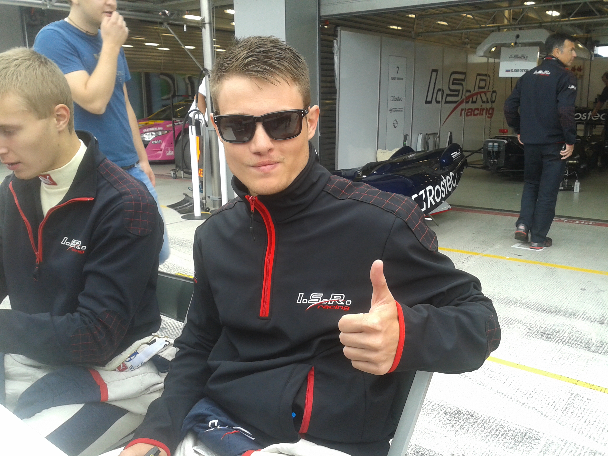 Christopher Zanella at Moscow Raceway, 22 June 2013